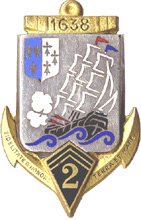 Regimental badge of the 2nd Marine Infantry Regiment.